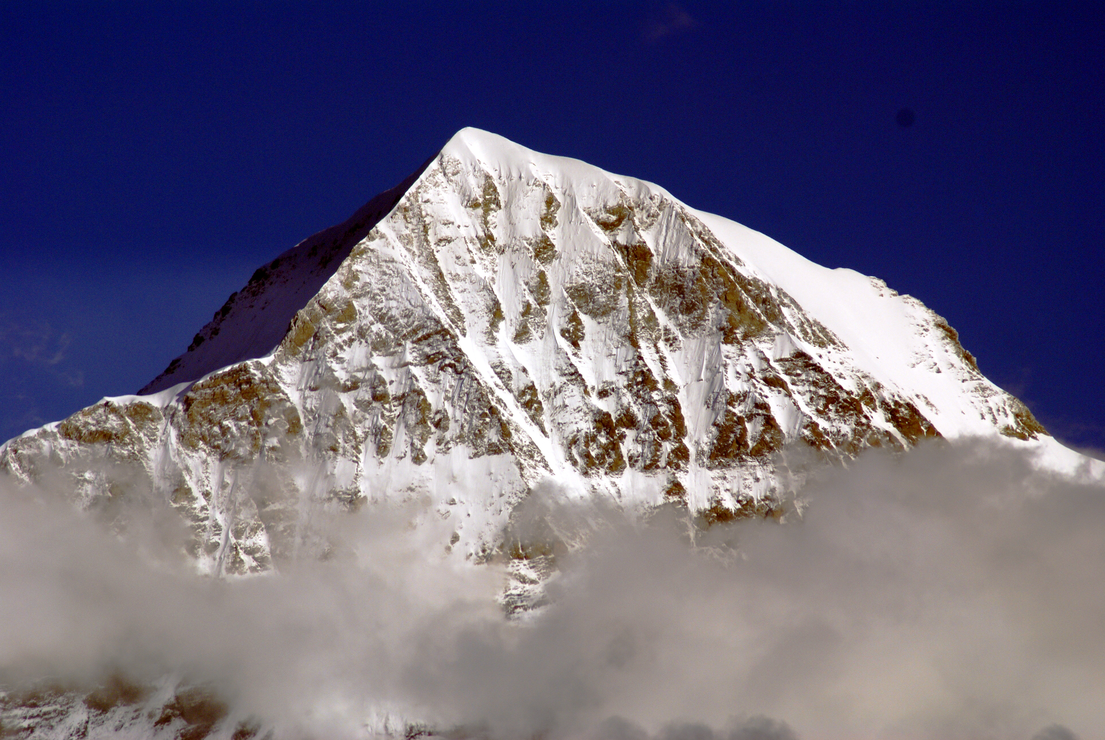 Mönch, Bernese Alps, Switzerland